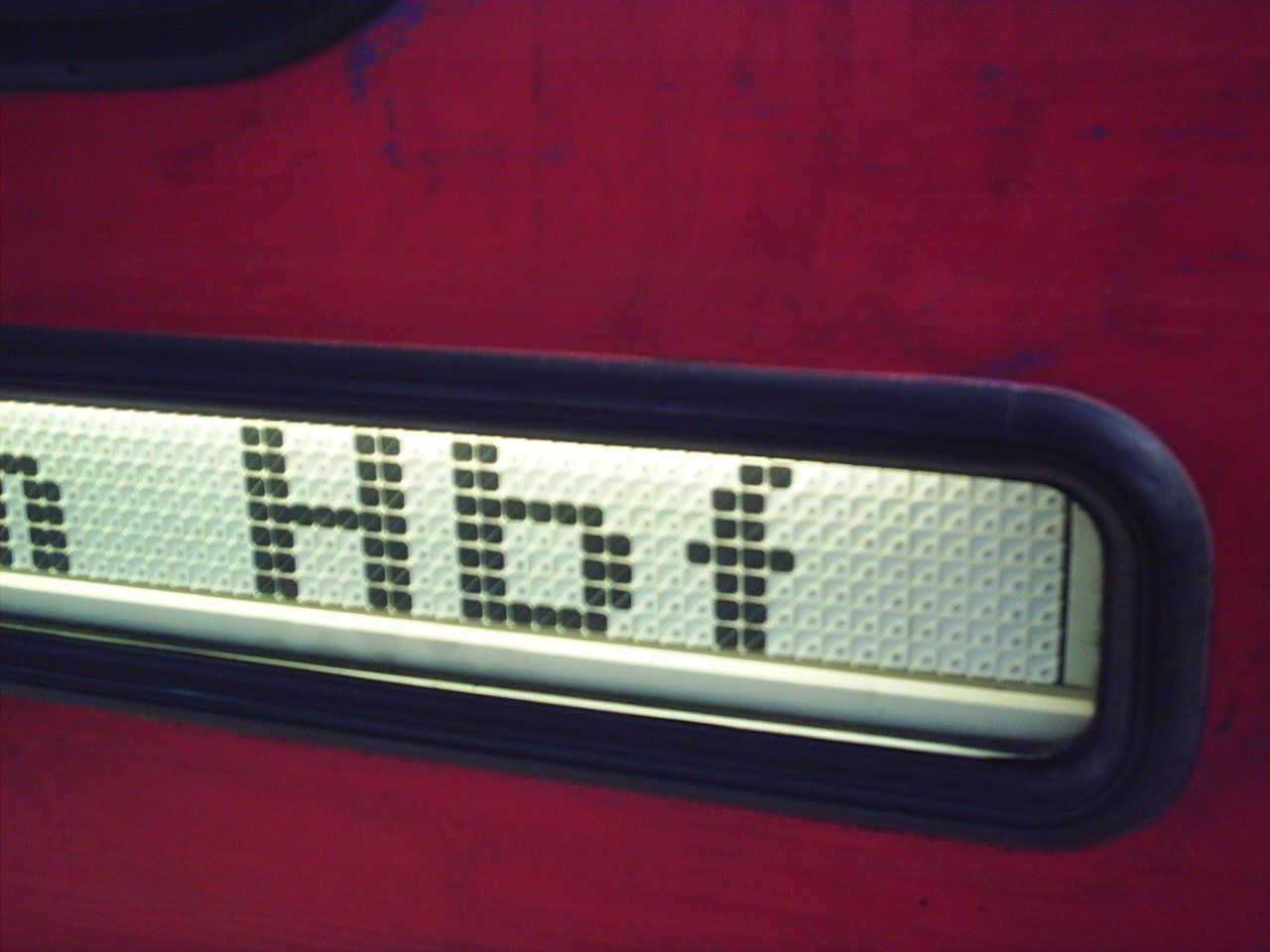 bistable indicators on a train check usage